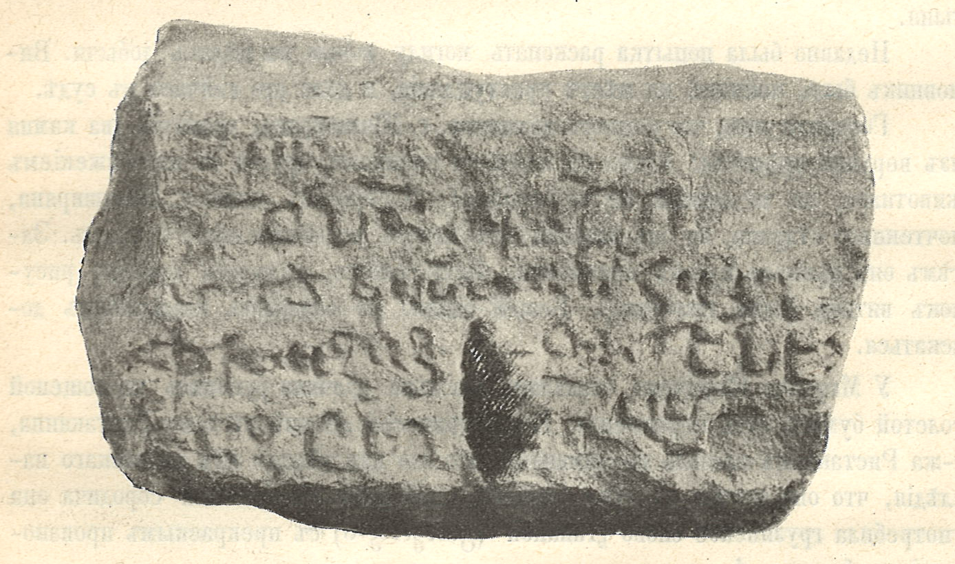 Armenian inscription from Ardanuç. From Nicholas Marr's dairy of his travels to Shavsheti and Klarjeti (1911).